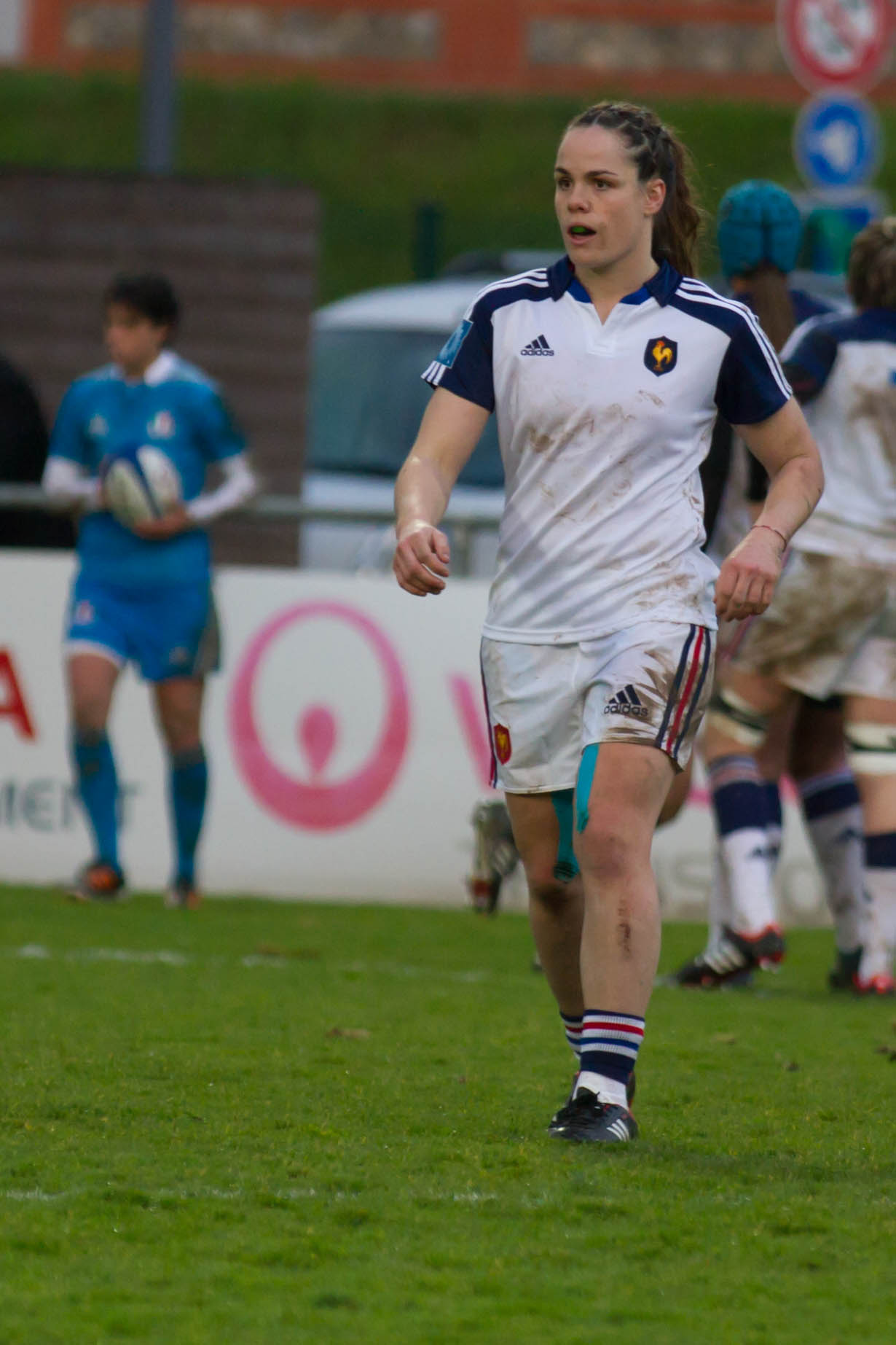 2014 Women's Six Nations Championship — 9 February 2014, Stade Ernest Argeles. Match between: France women's national rugby union team — Italy women's national rugby union team